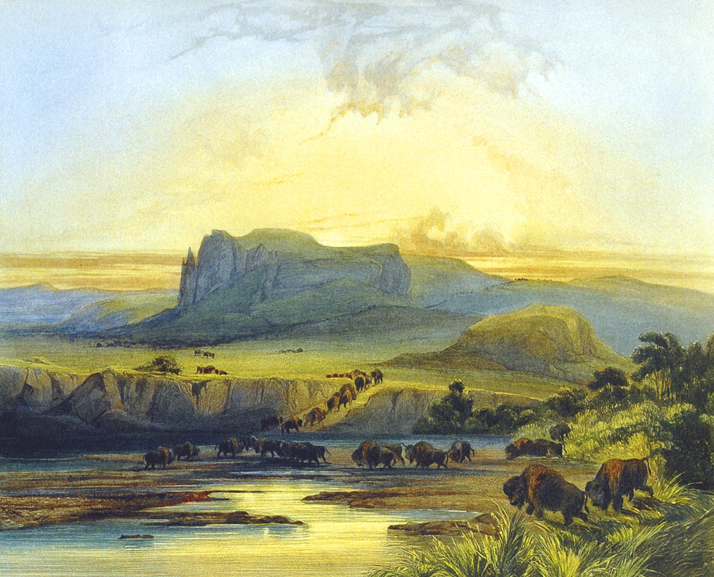 Herd of Bisons on the upper Missouri. Tableau 40 by J. Bishop and Sigismond Himely (after Karl Bodmer). de: Bisonherde am oberen Missouri. Tableau 40.